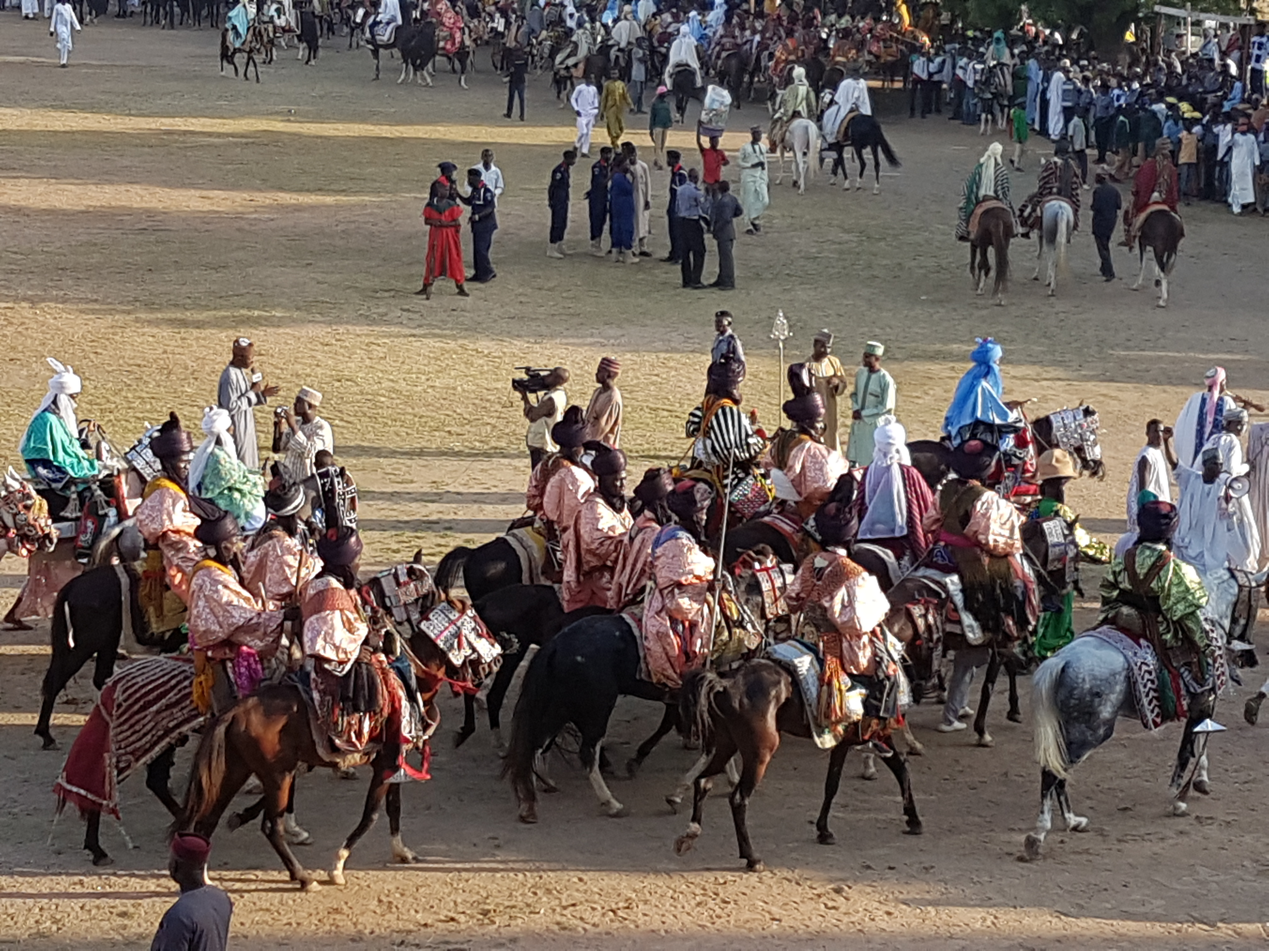 Horsemen during the September 2016 Durbar in Kano.